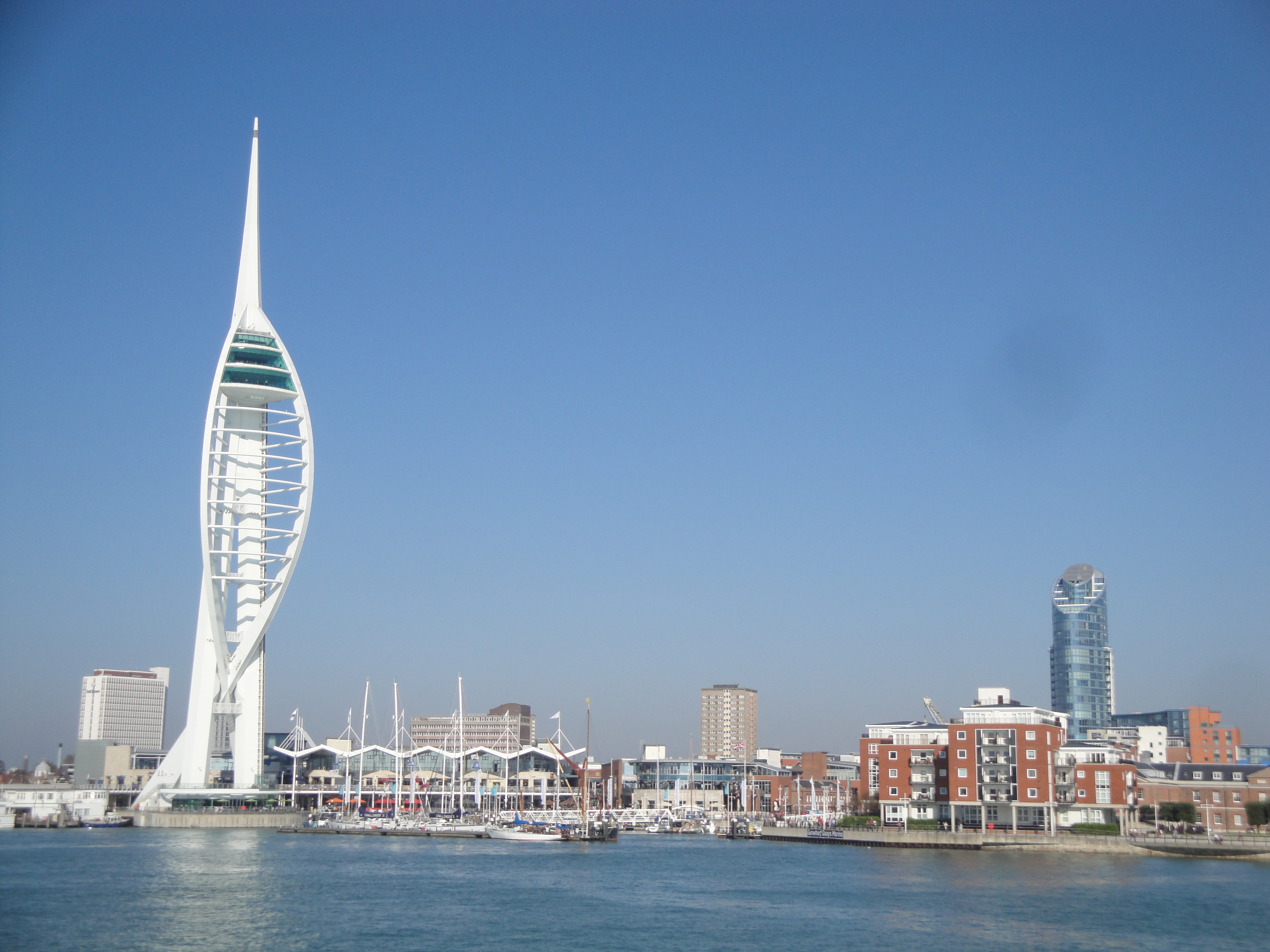 Gunwharf Quays, Portsmouth, Hampshire, seen from the sun deck of Wightlink Wight Ryder I as it leaves Portsmouth Harbour heading to the Isle of Wight.